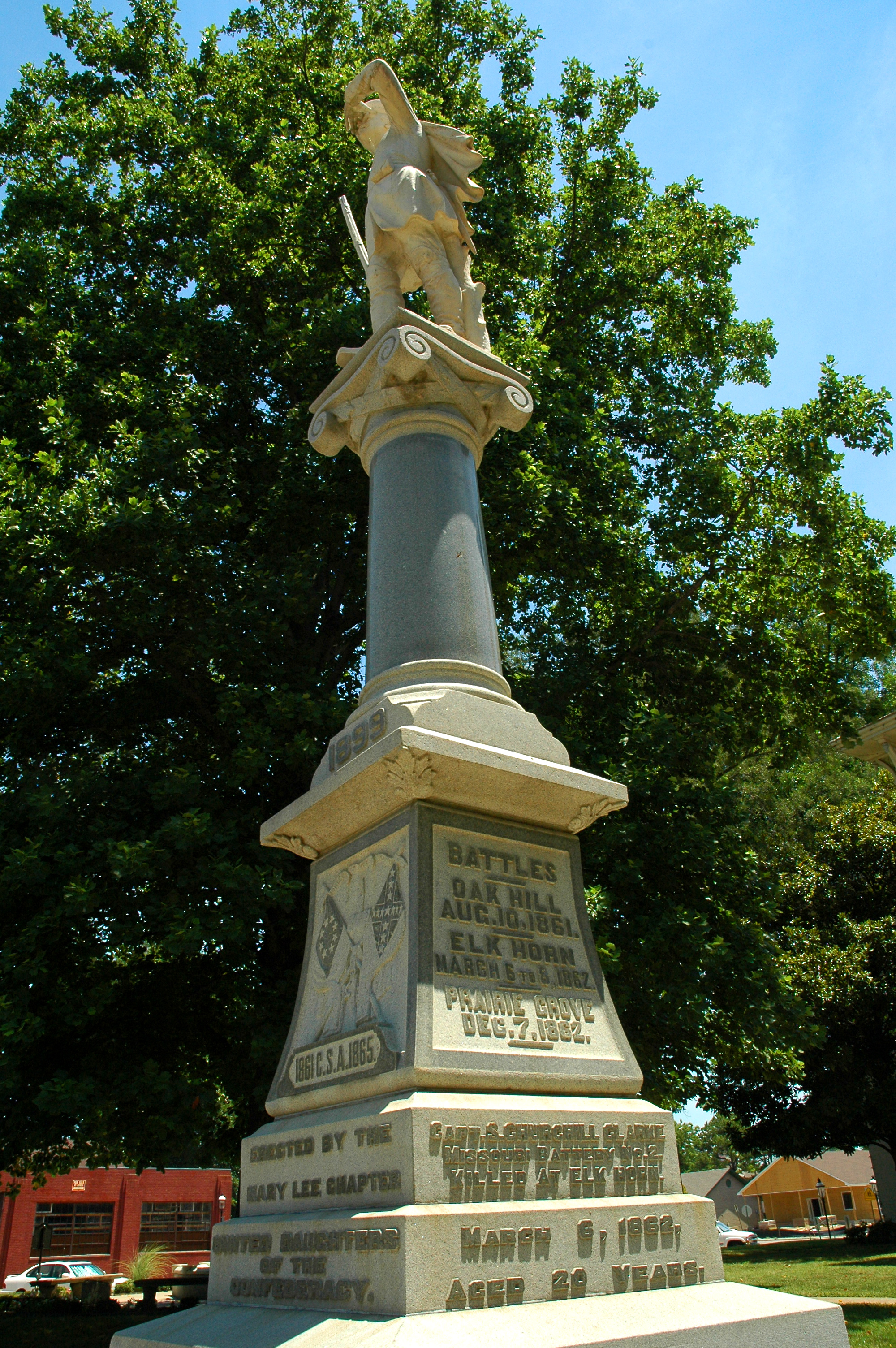 Front of the Van Buren Confederate Monument, located on the county courthouse lawn in downtown Van Buren, Arkansas, United States. Built in 1899, it is listed on the National Register of Historic Places.